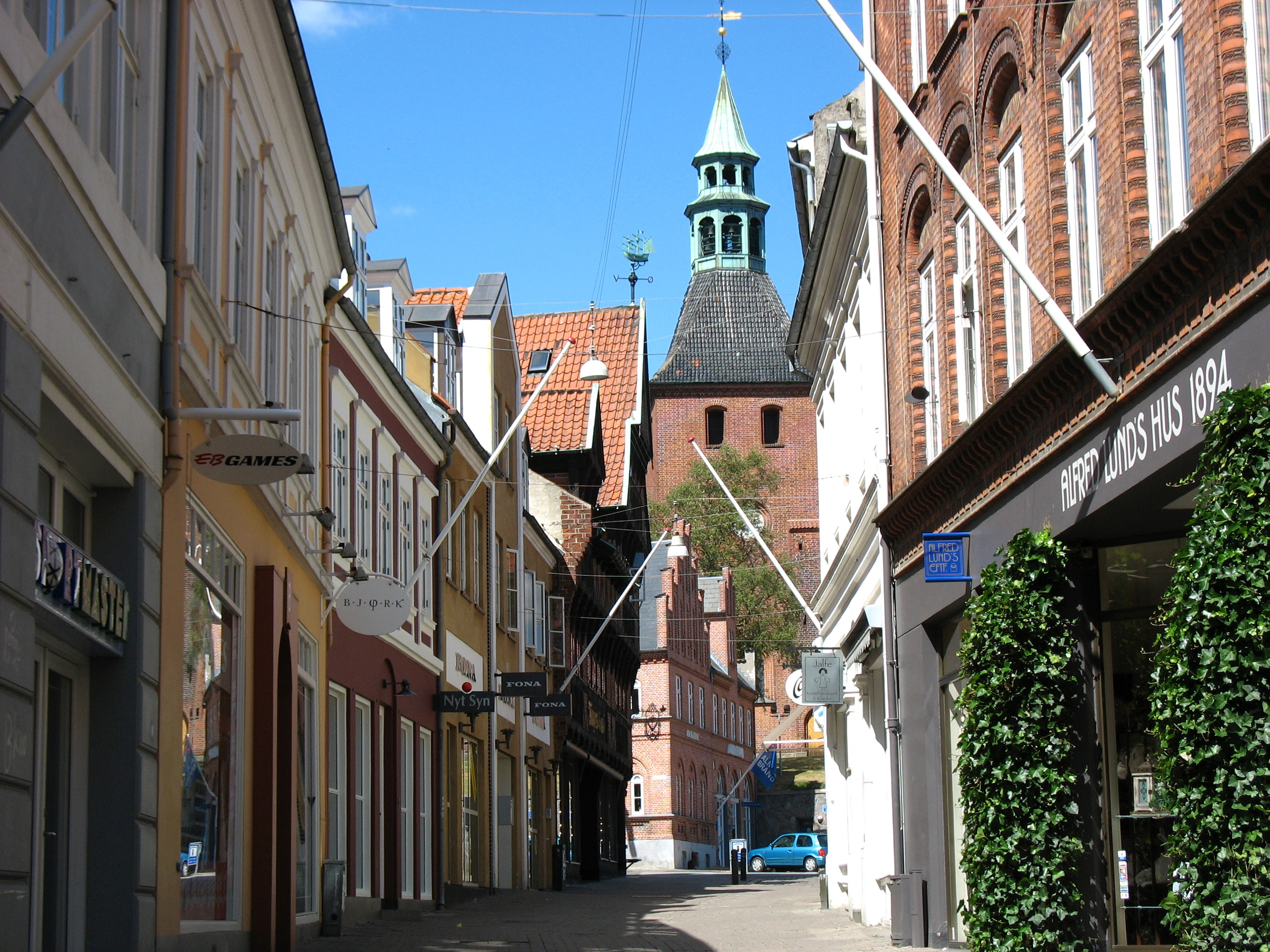 The small street "Kattesundet" in the Danish town "Svendborg" (on the island Funen). In the background the church "Vor Frue Kirke".